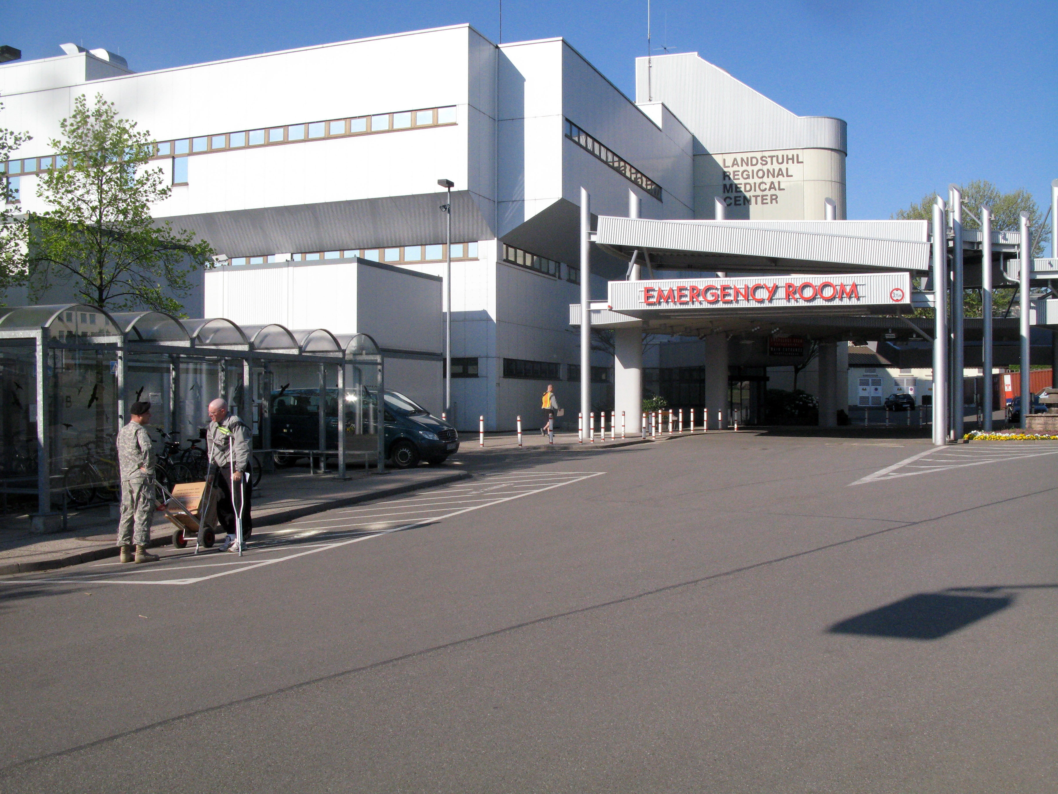 More than 61,000 U.S. and coalition servicemembers, civilian employees and contractors have been flown to Landstuhl Regional Medical Center, Germany, since January 2004